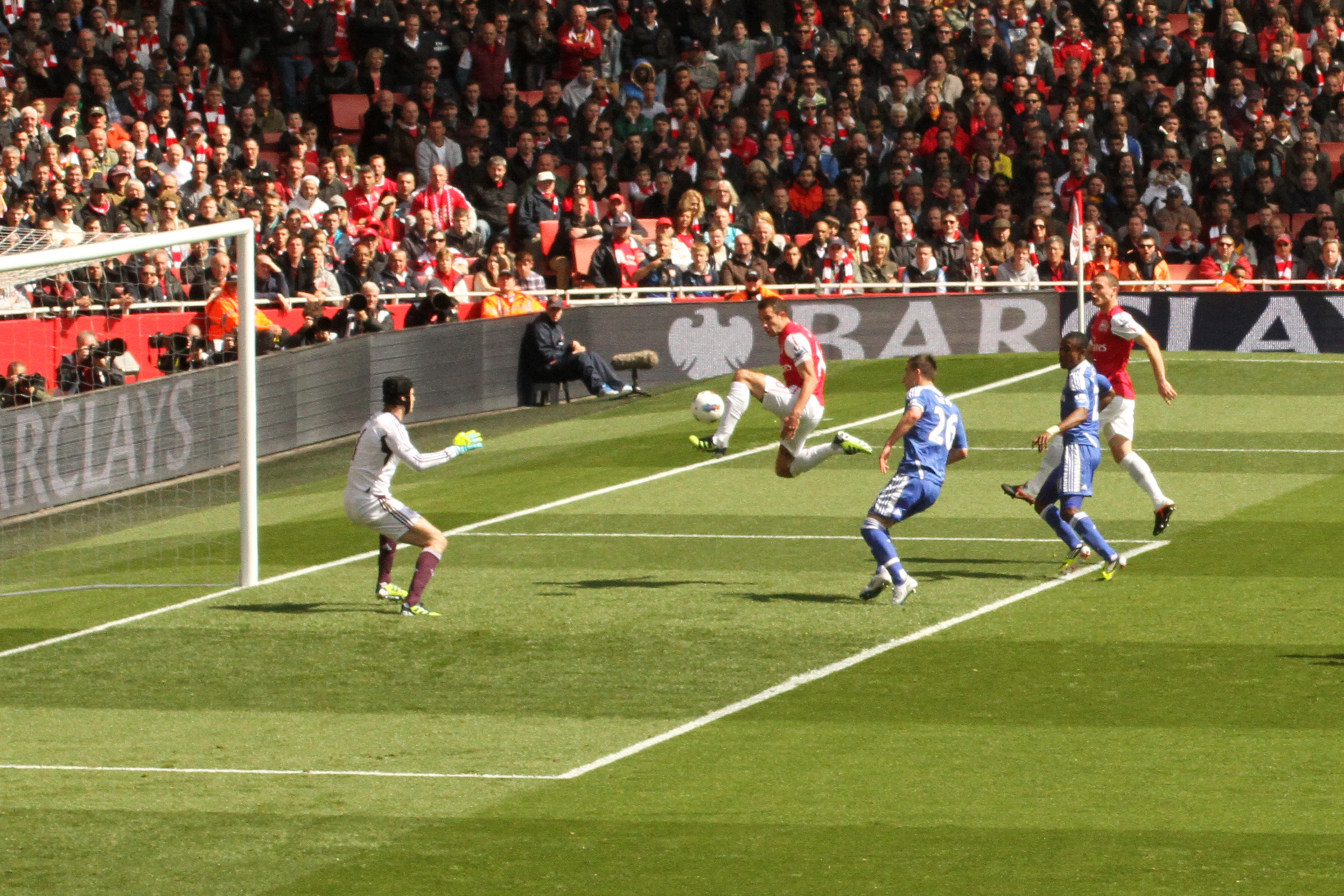 Robin Van Persie threatens goal